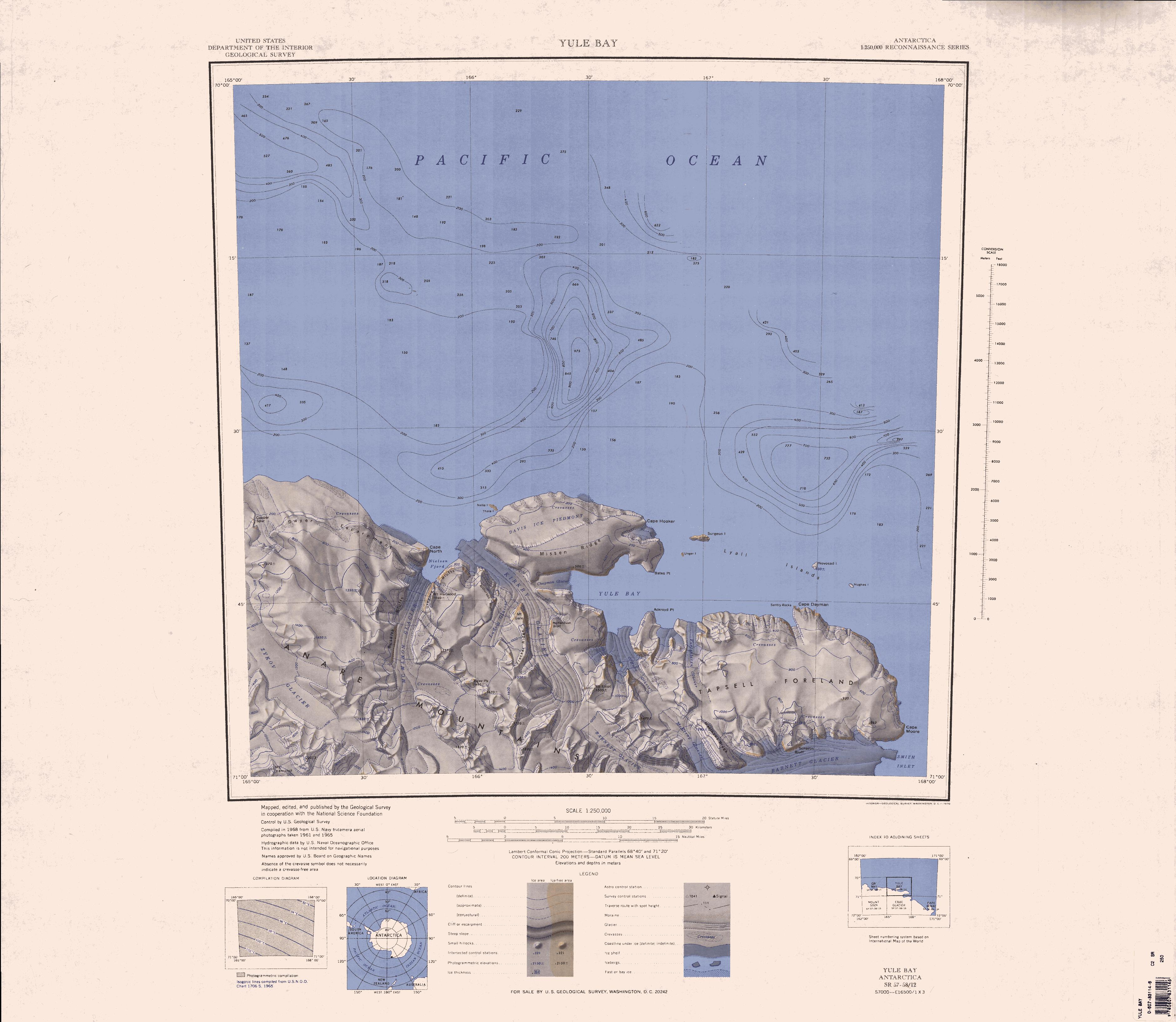 1:250,000-scale topographic reconnaissance map of the Yule Bay area from 165°-168°E to 70°-71°S in Antarctica. Mapped, edited and published by the U.S. Geological Survey in cooperation with the National Science Foundation.